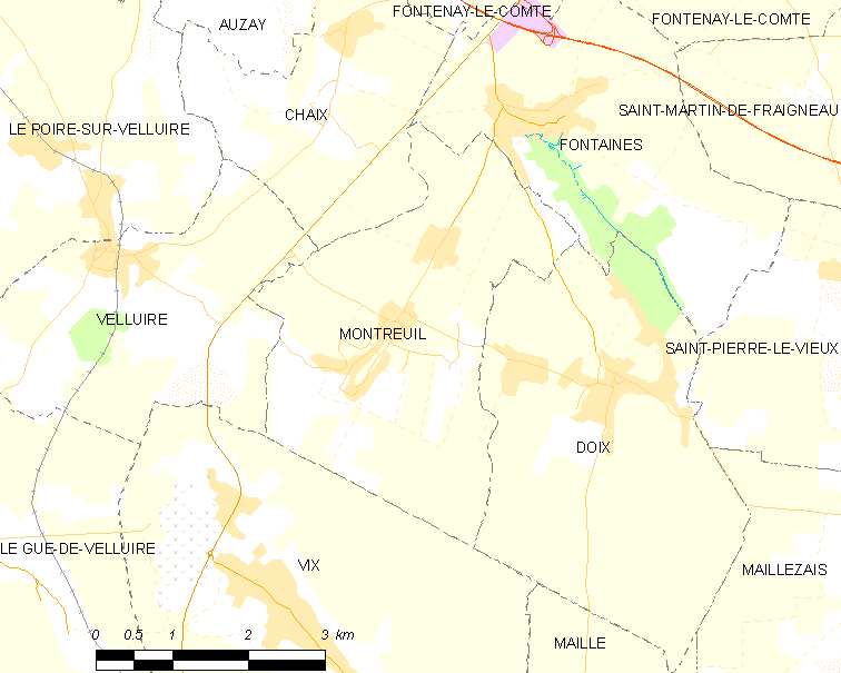 Map of French municipality Montreuil